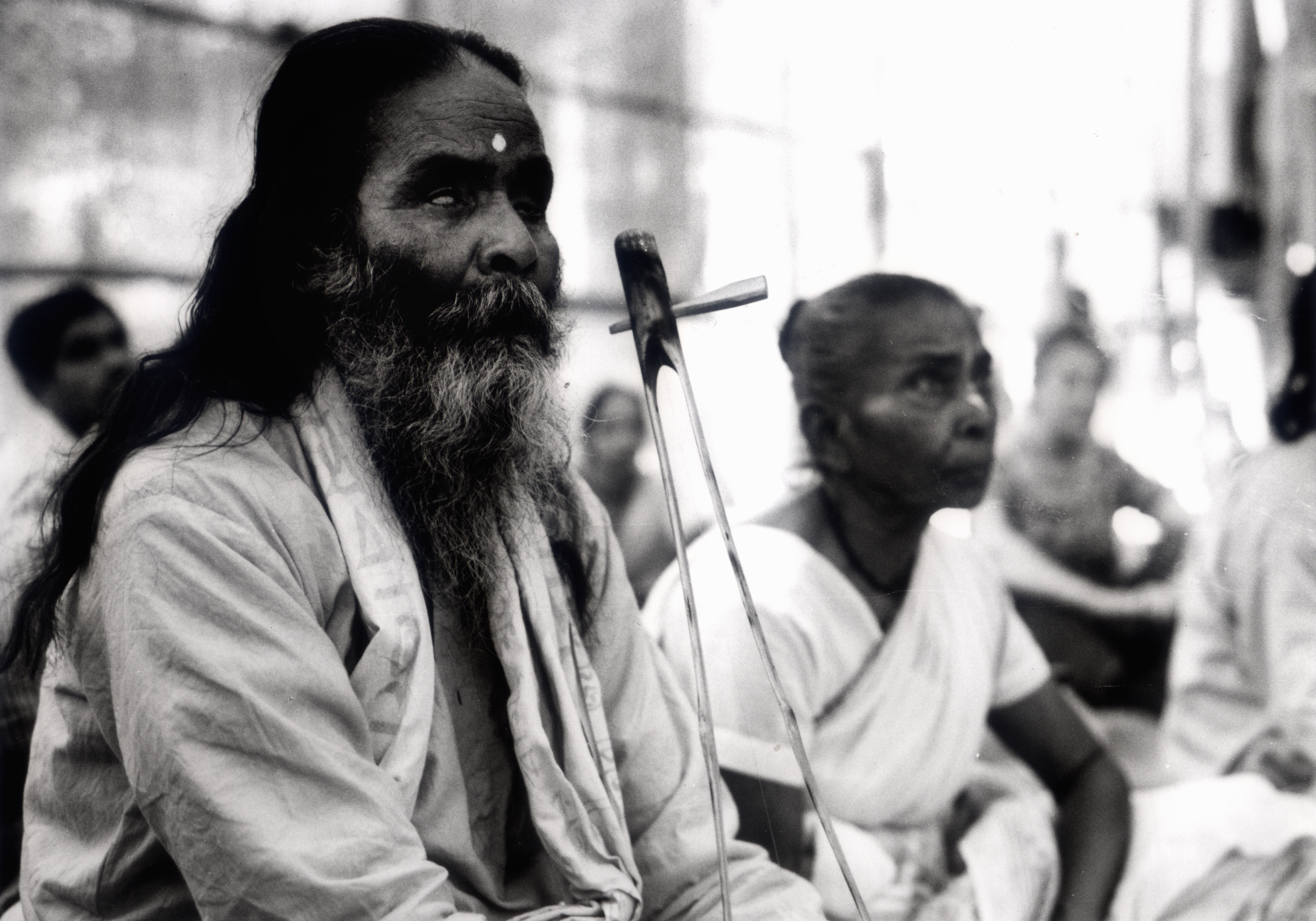 portrait of Baul Kanai Das